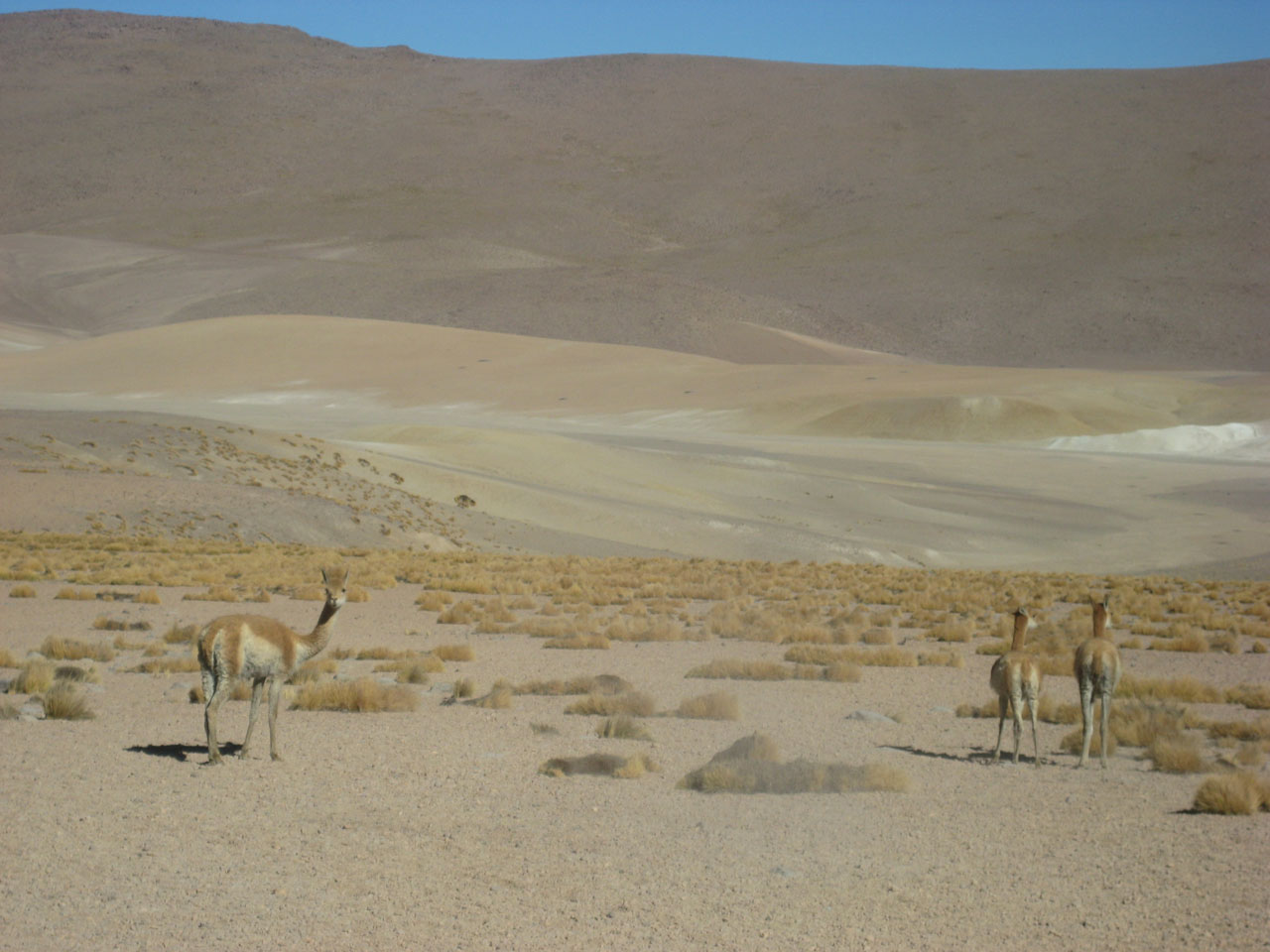 Vicuñas on road to Geysers El Tatio